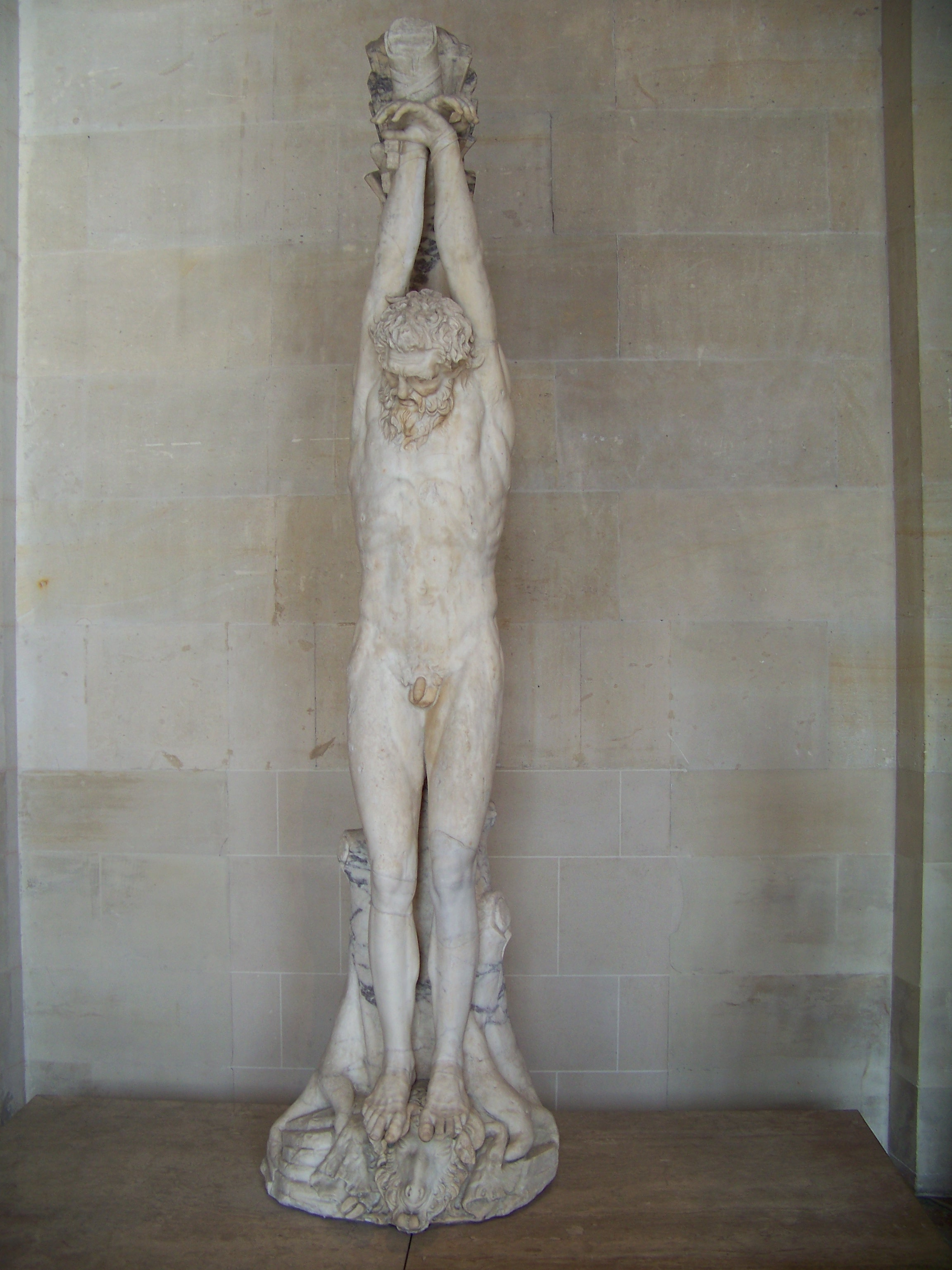 The Torment of Marsyas, Louvre, Paris.